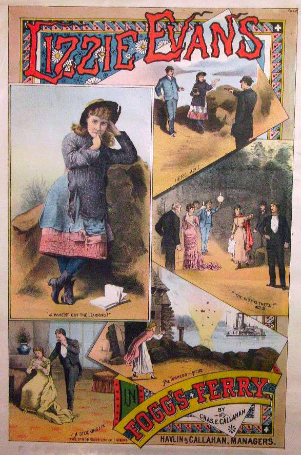 Theatrical poster featuring the vaudeville artist Lizzie Evans in Fogg's Ferry.